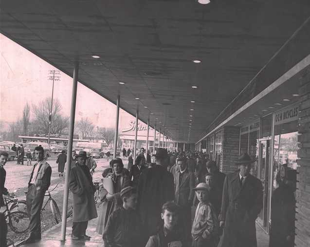 Dorval Garden Shopping Centre. 1954 Steinberg's